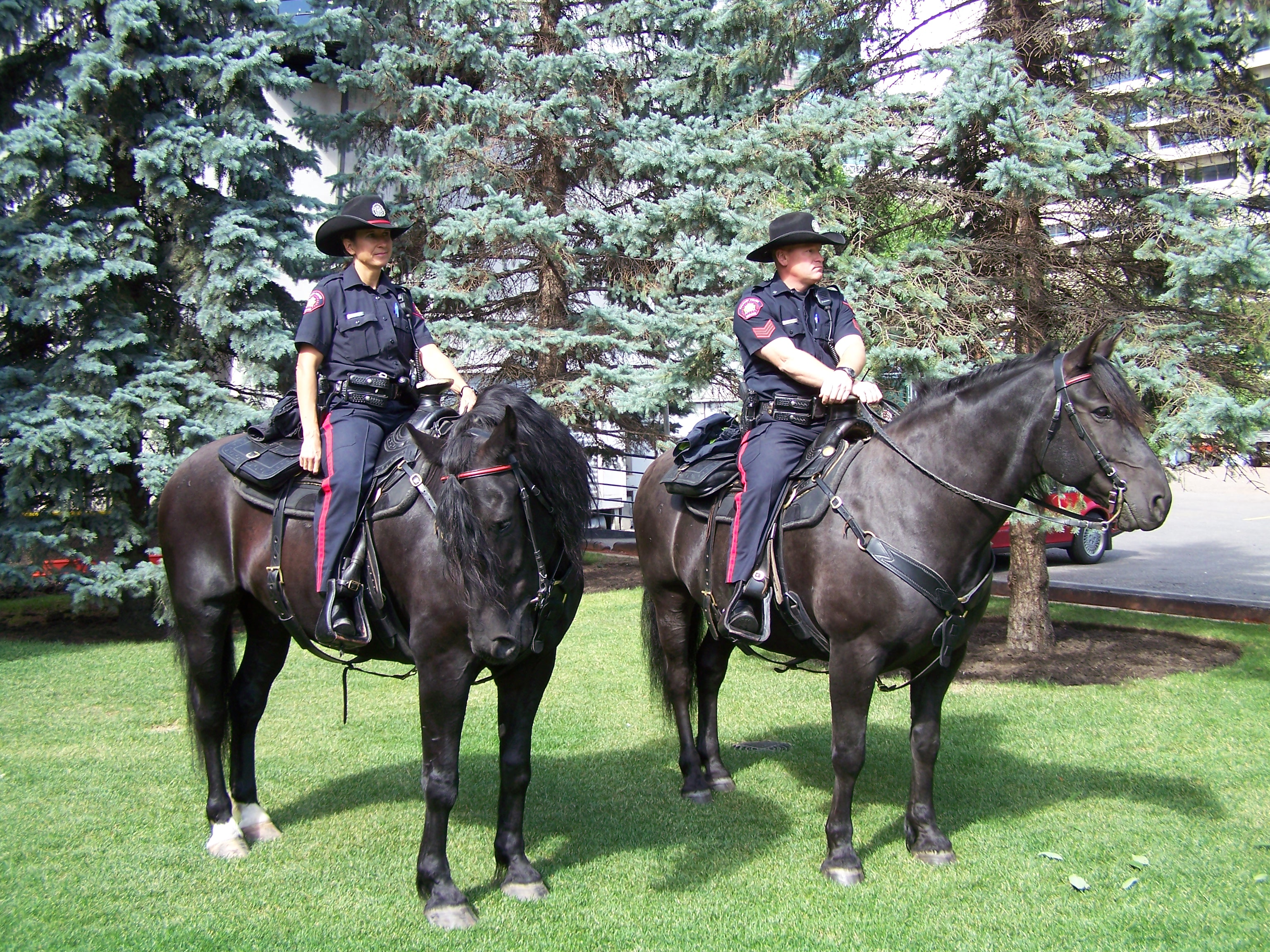 Two mounted members of the Calgary Police Service on duty at Olympic Plaza park in downtown Calgary, Alberta, Canada.